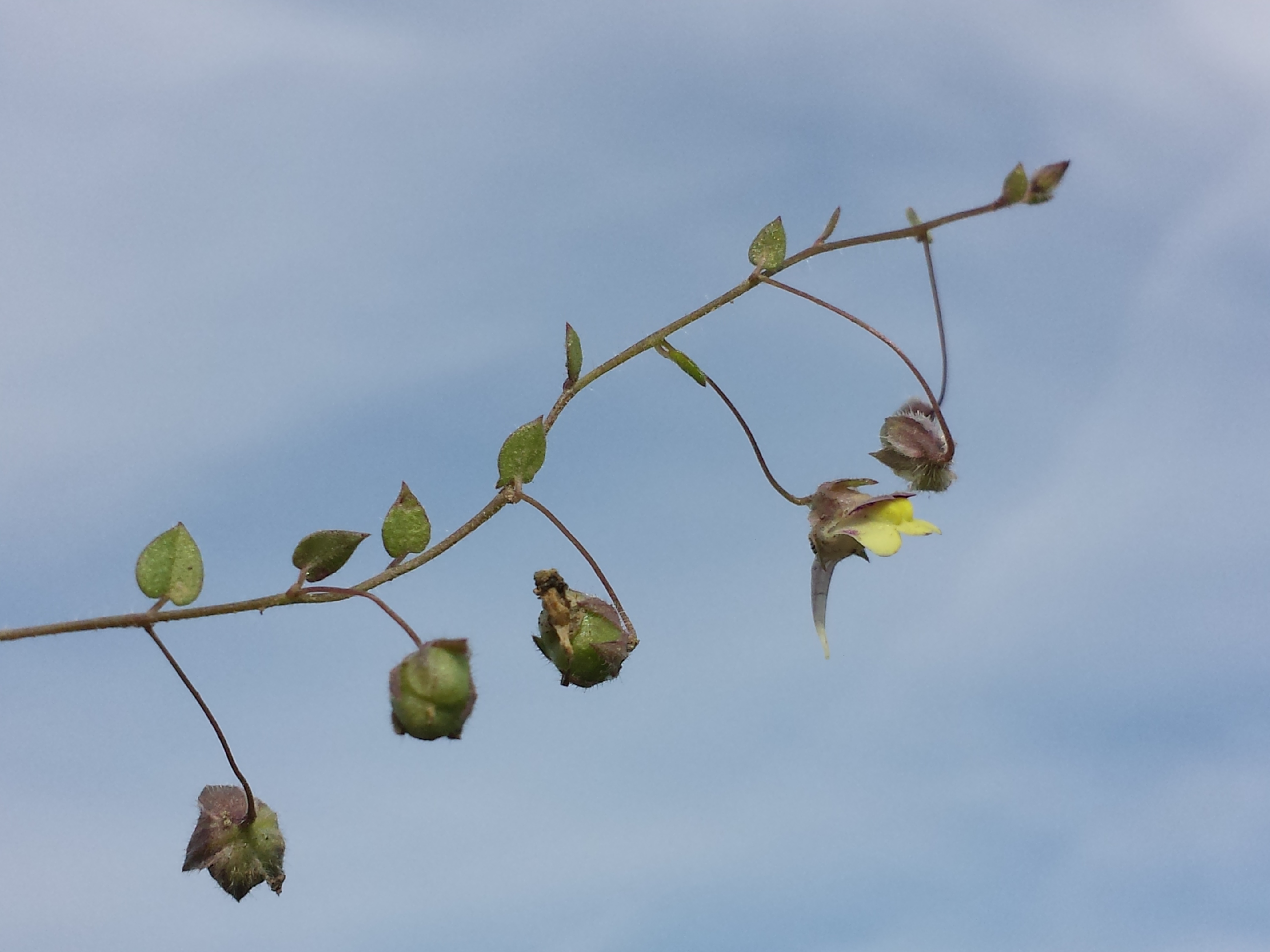 Habitus Taxonym: Kickxia elatine ss Fischer et al. EfÖLS 2008 ISBN 978-3-85474-187-9 Location: pond near Michelstetten, district Mistelbach, Lower Austria - ca. 250 m a.s.l. Habitat: shore of a pond